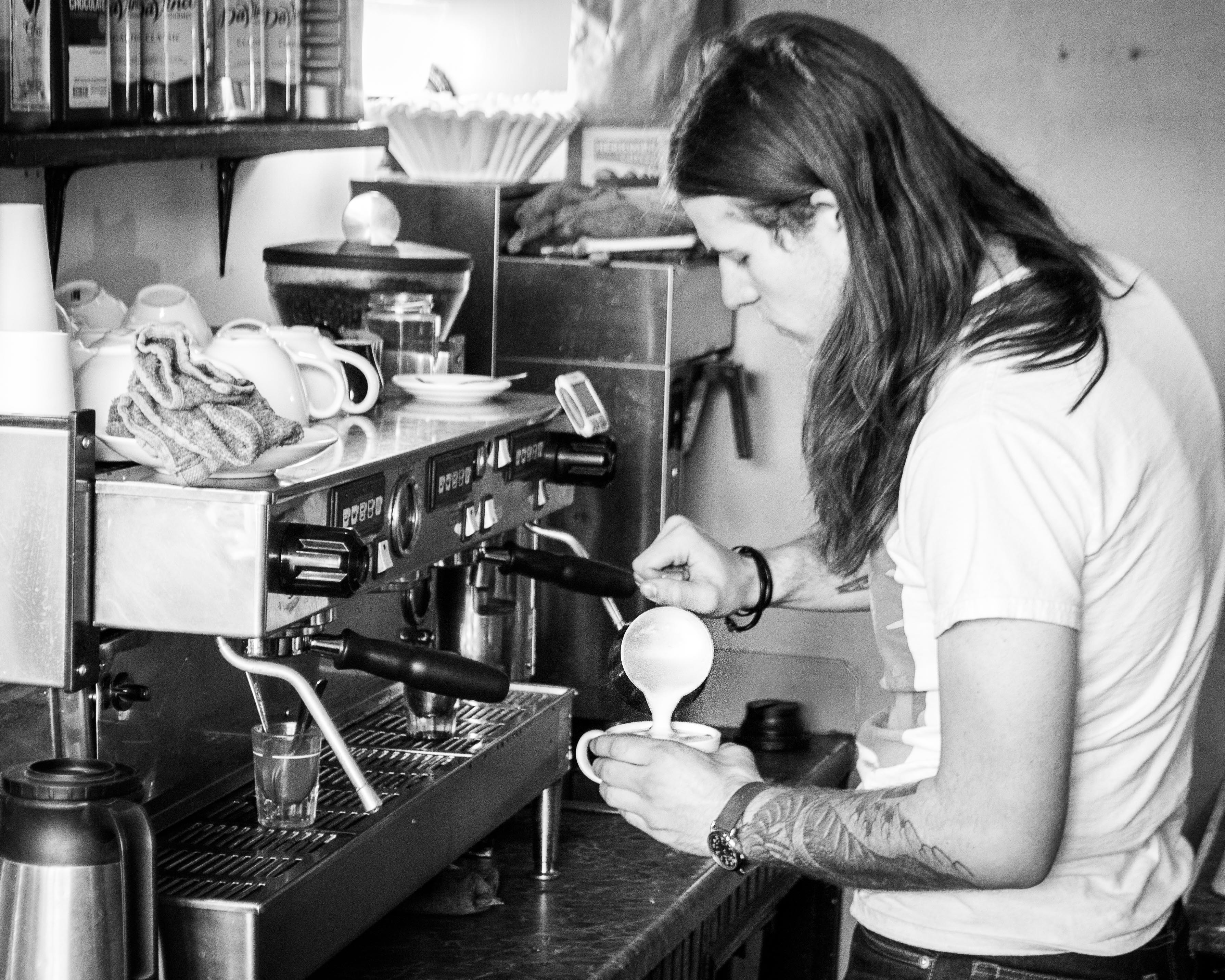 A barista prepares cappuccino at a Ballard coffee bar